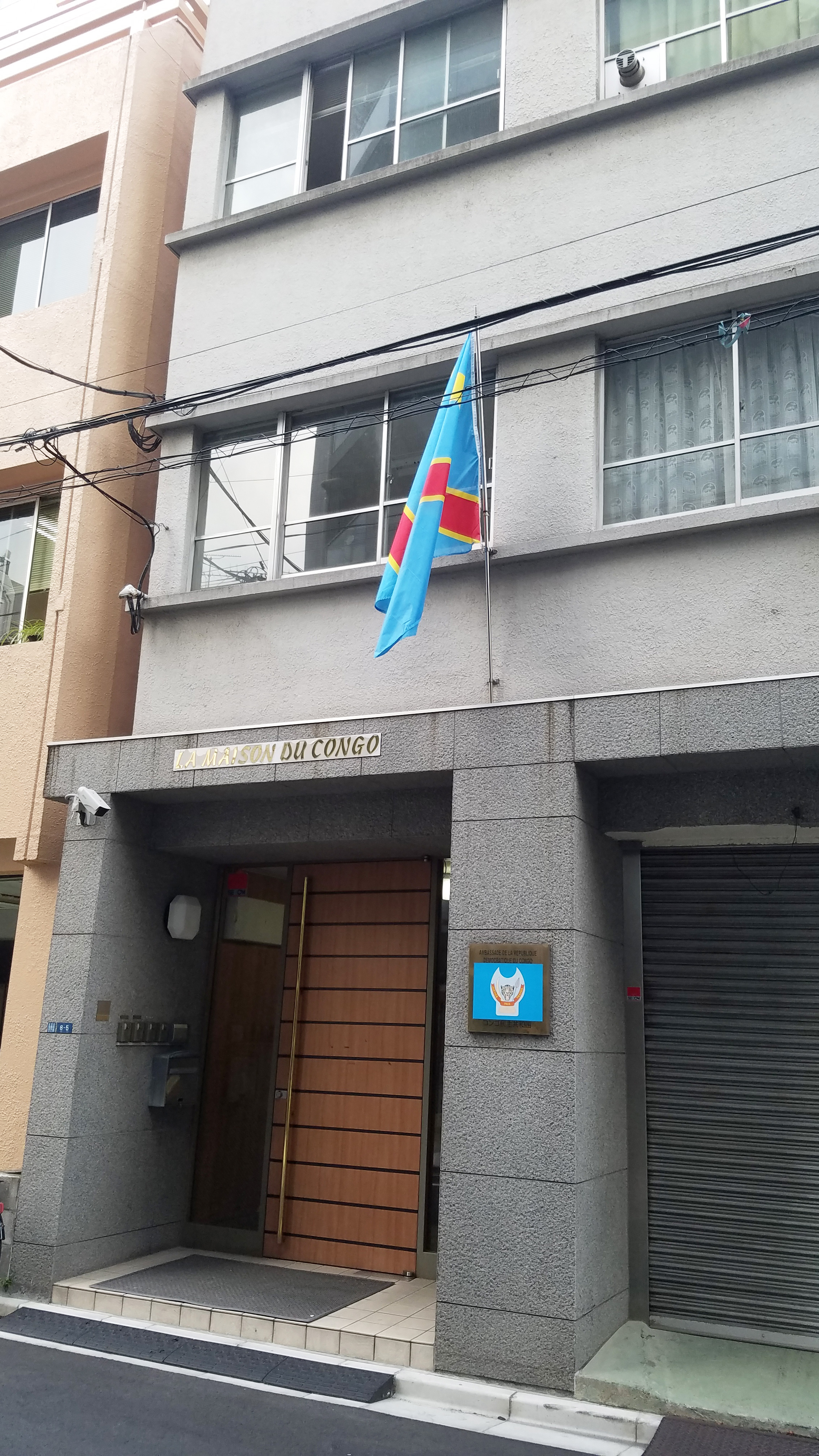 The embassy of the Democratic Republic of the Congo in Tokyo Japan - 5-8-5 Asakusabashi, Taito, Tokyo